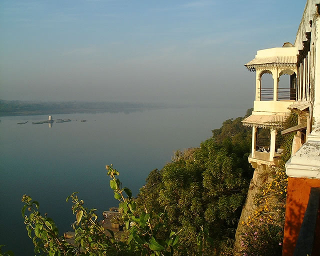 Chandresh Dubey: Arranged by a local person